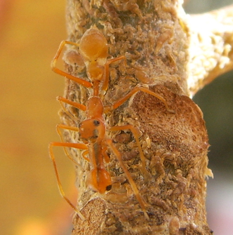 male Myrmarachne plataleoides from Thailand.